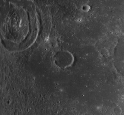 LROC image WAC No. M119292605ME. Talbot crater is at centre of image, Haldane crater at upper left corner.